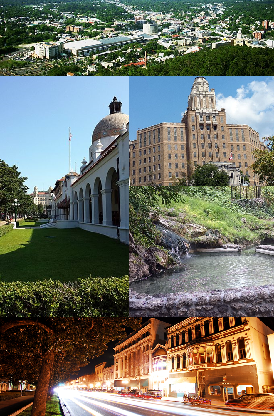 File:Hot Springs, Arkansas aerial view.jpg File:Army-Navy Hospital 002.jpg File:Hot Springs National Park 007.jpg File:ChrisLitherlandHotSprings.jpg File:Bathhouse Row 001.jpg